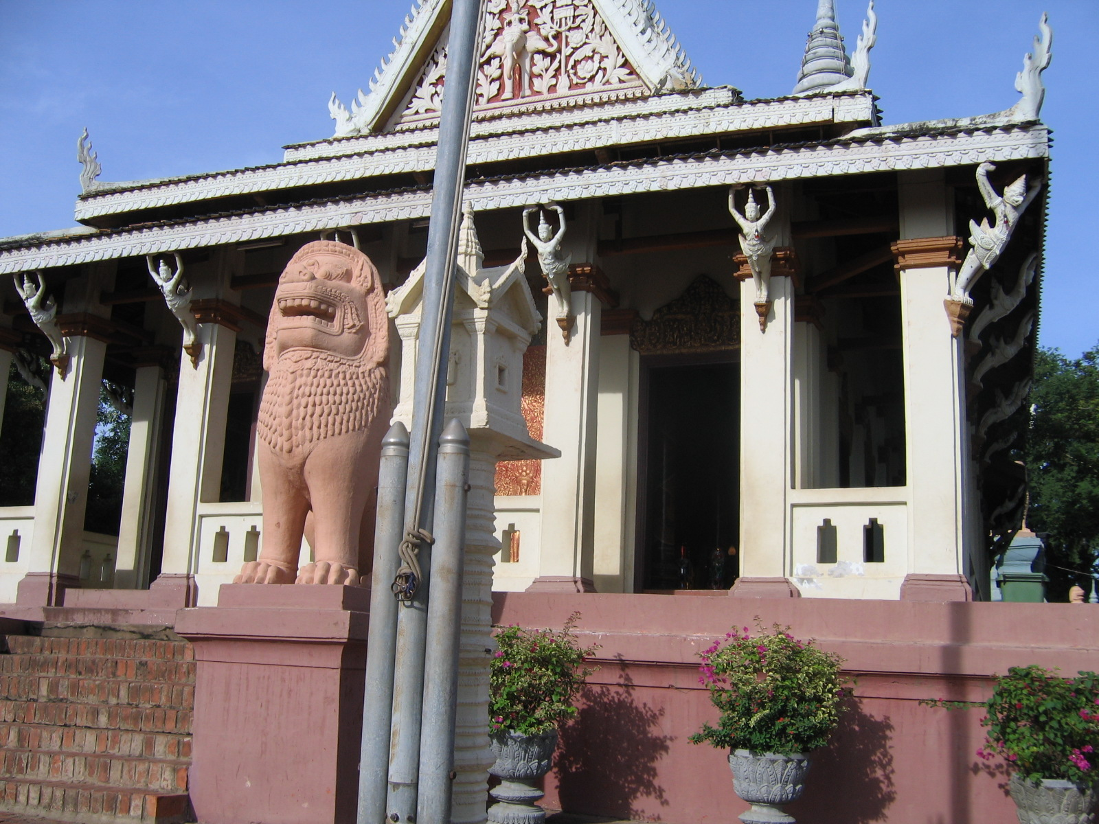 Main pagoda